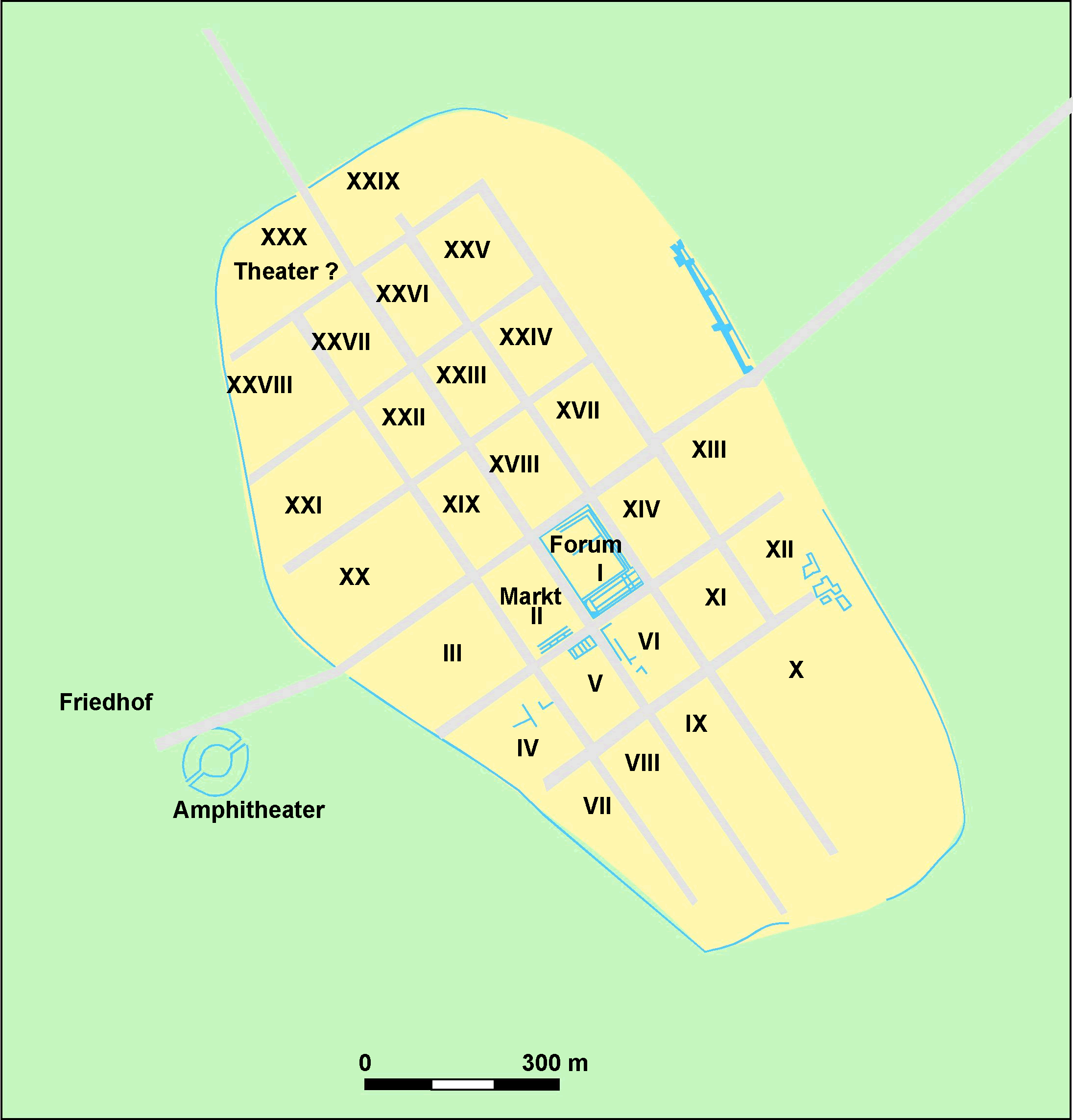 plan of Roman Cirencester